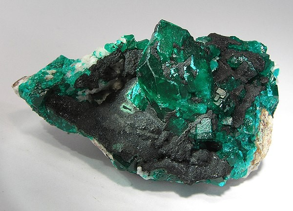 Dioptase, Heterogenite Locality: Tsumeb Mine (Tsumcorp Mine), Tsumeb, Otjikoto (Oshikoto) Region, Namibia (Locality at ) Size: 4.9 x 2.6 x 2.1 cm. The star of this Tsumeb dioptase is a 1.8 cm crystal that has this very unusual and pretty multiply terminated, stepped form. These emerald green crystals are surrounded by black heterogenite, so the specimen has an unusual appearance compared to the average Tsumeb diop. Tsumeb dioptases are ALWAYS desirable and have always been among the crystal specimens most highly prized by collectors.